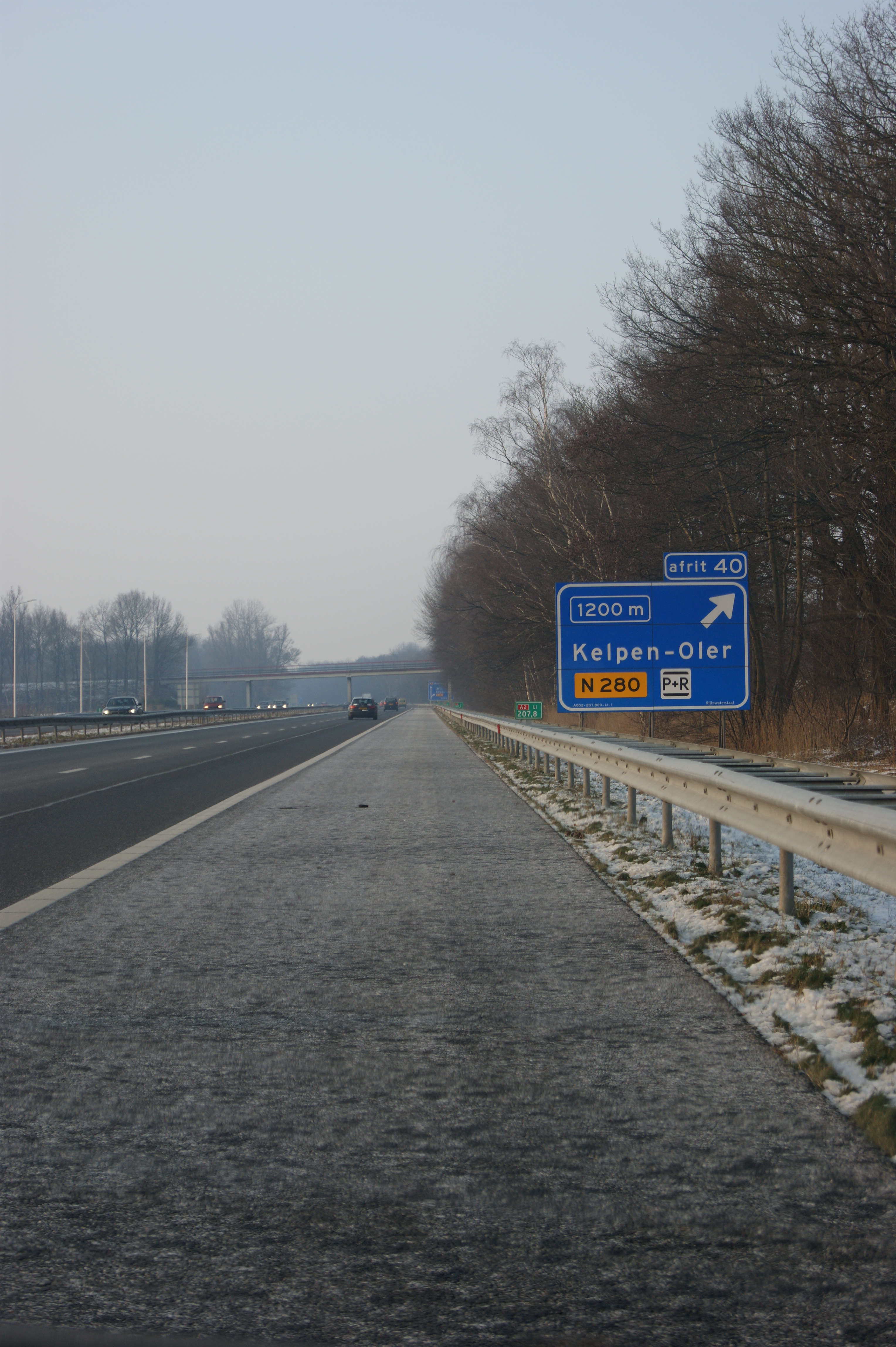 Exit Kelpen-Oler